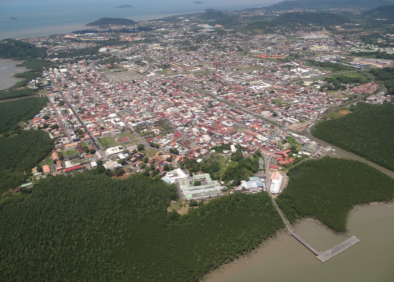 Aerial photograph of Cayenne, French Guiana